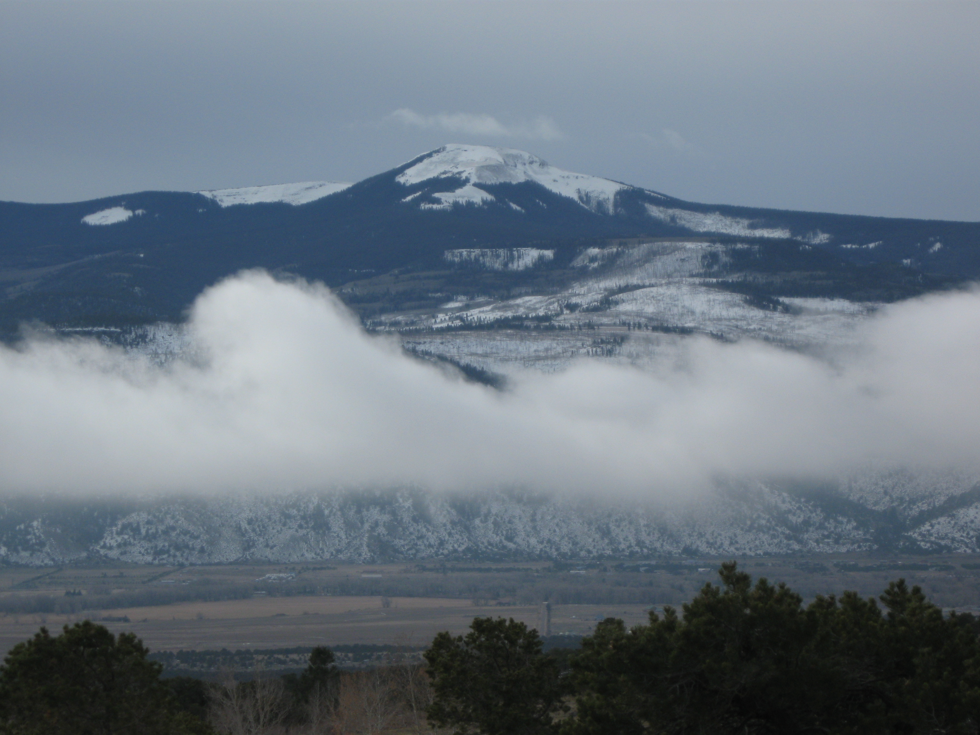 Del Norte Peak towers over low clouds at the western edge of the San Luis Valley in Rio Grande National Forest. This photo was taken looking southwest. Del Norte Peak has an approximate elevation of 12,385 feet above sea level. This photo was taken in November, 2011.